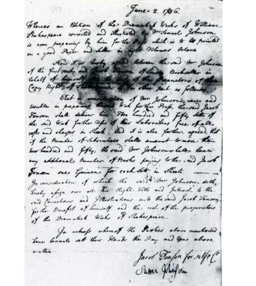 Agreement with Mr Johnson / for an Edition of / Shakespeare Plays / 8 volumes 8vo / June 2d / 1756